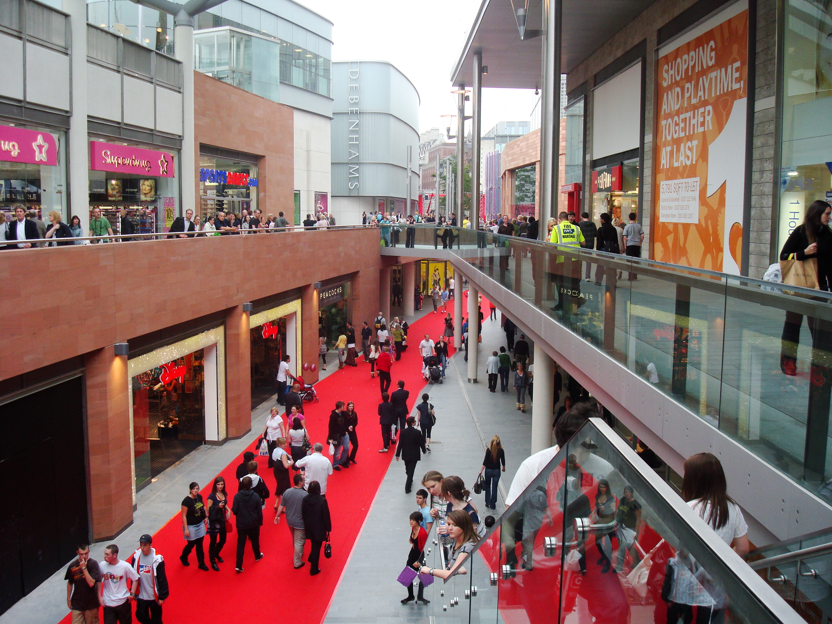 South John Street